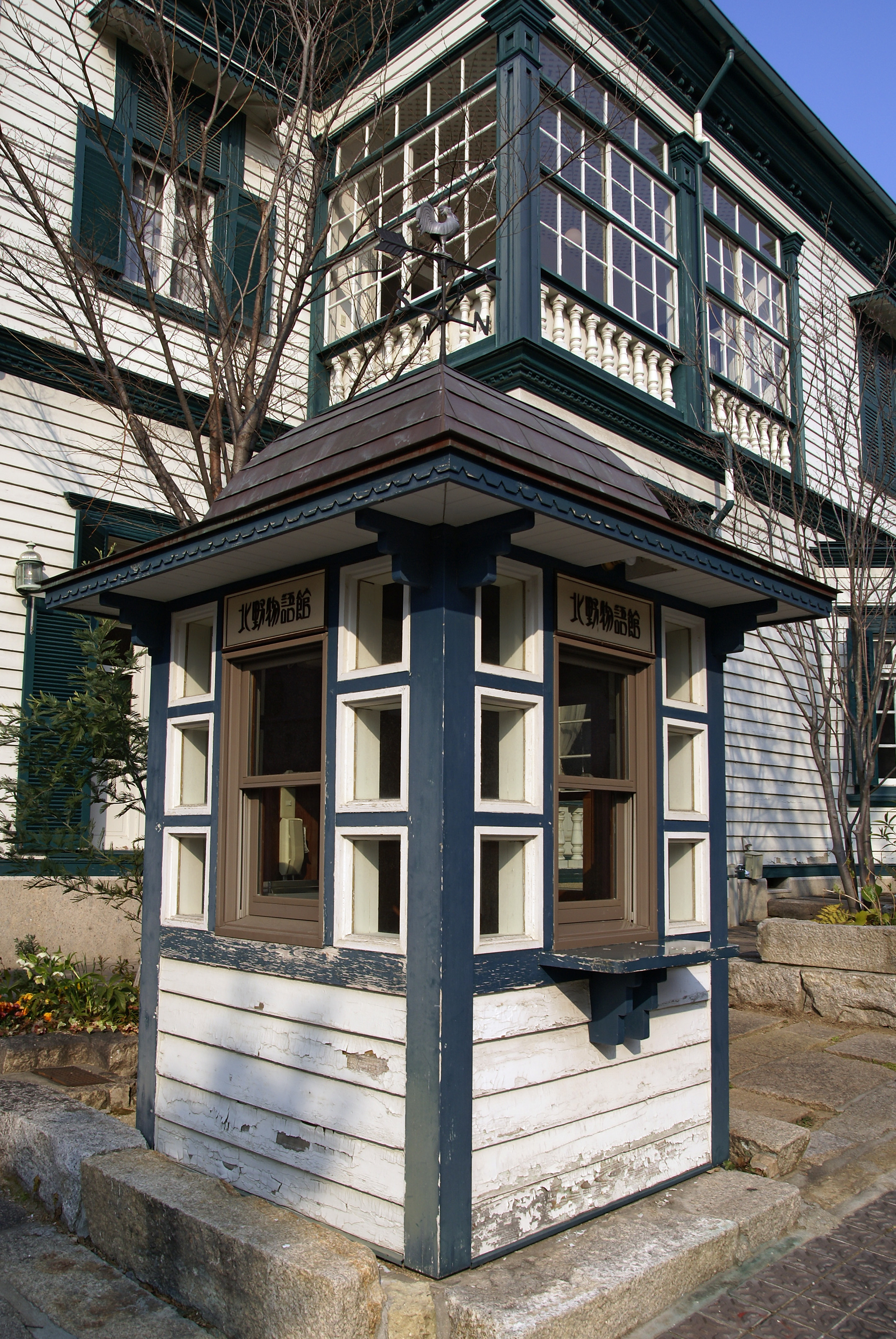 The Old Freundlieb's Residence in Kobe, Hyogo prefecture, Japan